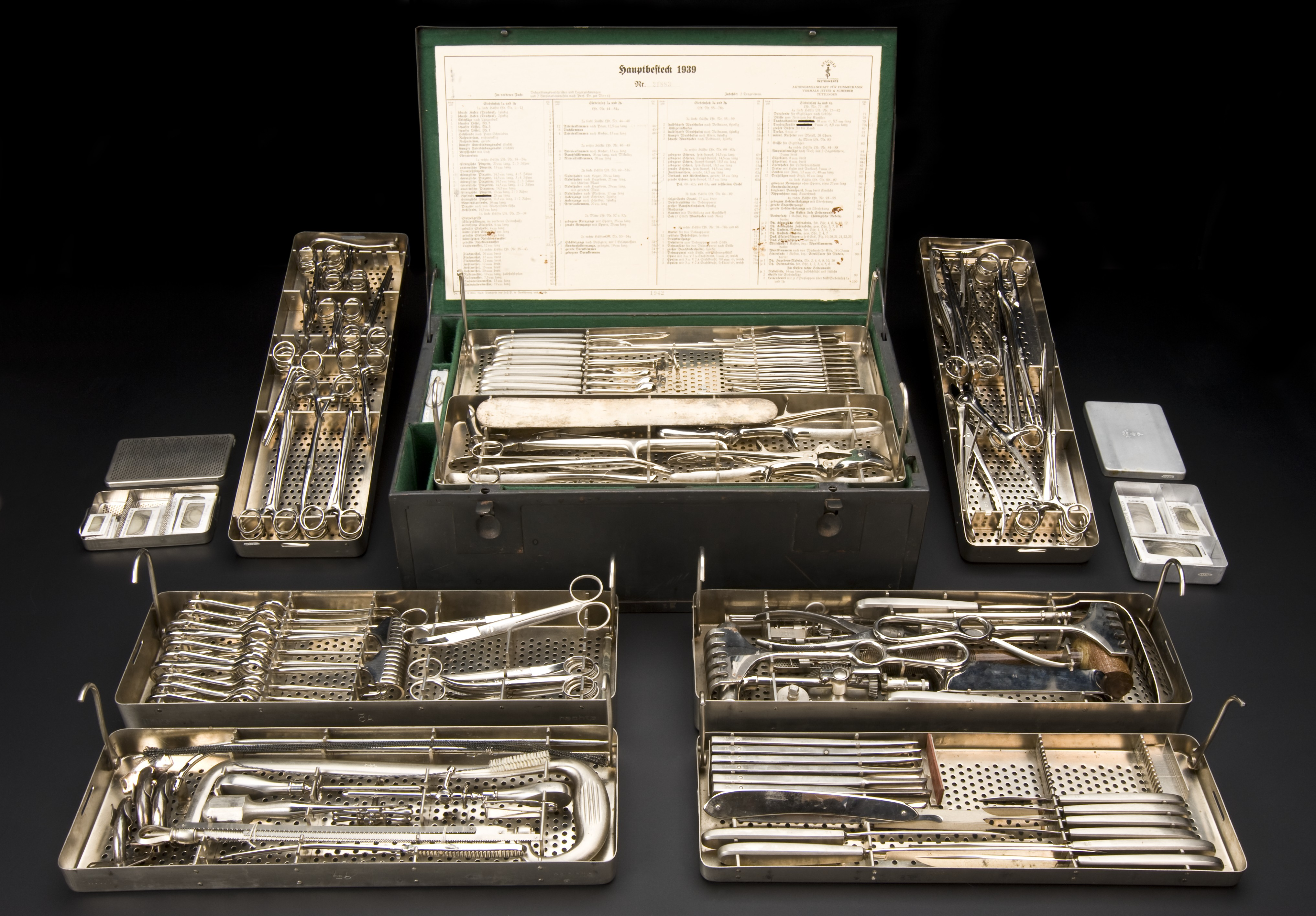 This extensive steel surgical instrument set contains a wide range of the equipment an army surgeon may have needed at a German field hospital. Some of the instruments, such as the amputation knives and saw, are for specific tasks. Other instruments, such as the forceps for clamping bones, arteries, and intestines, have a more general use. The kit is labelled with the German word Hauptbesteck and the date. Hauptbesteck translates as “main cutlery”, “cutlery” being another word for surgical instruments. The use of steel for the case as well as the instruments ensured that this equipment could be sterilised easily. maker: Jetter and Scheerer Place made: Tuttlingen, Freiburg district, Baden-Württemberg, Germany Wellcome Images Keywords: Sutures; Amputation; artery forceps; bone forceps; surgical instrument set; suture; field hospital